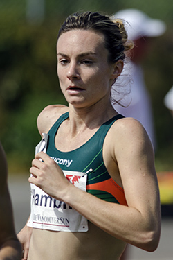 Photo of runner Nikki Hamblin